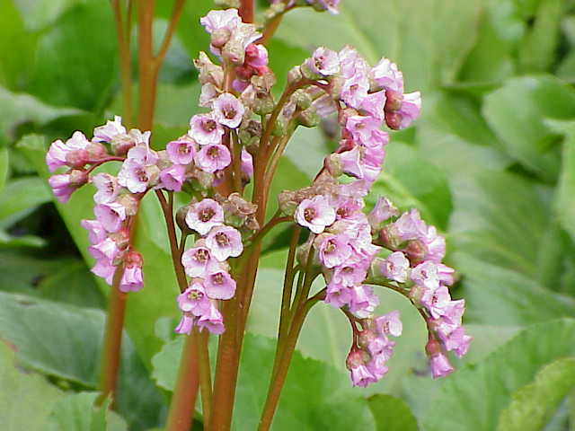 Species: Bergenia stracheyi Family: Saxifragaceae Image No. 1